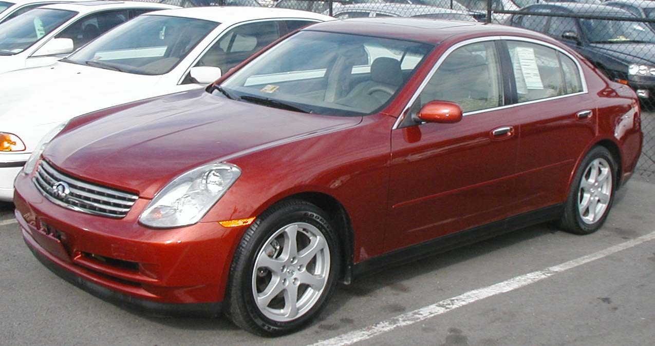 2003-2006 Infiniti G35 photographed in USA.